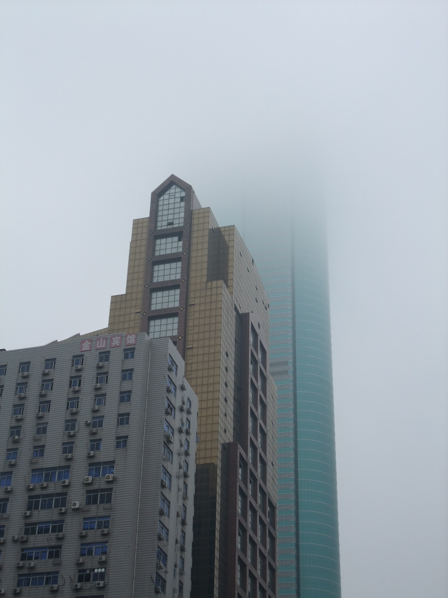 Di Wang Building (skyscraper), Shun Hing Square, Shenzhen China; ninth tallest building in the world top in the clouds